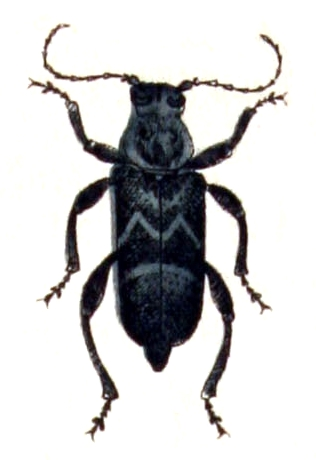 Hylotrupes bajulus, from Calwer's Käferbuch, Table 37, Picture 3. Taxonomy was updated to 2008, using mostly the sites Fauna Europaea and BioLib. Please contact Sarefo if the determination is wrong!